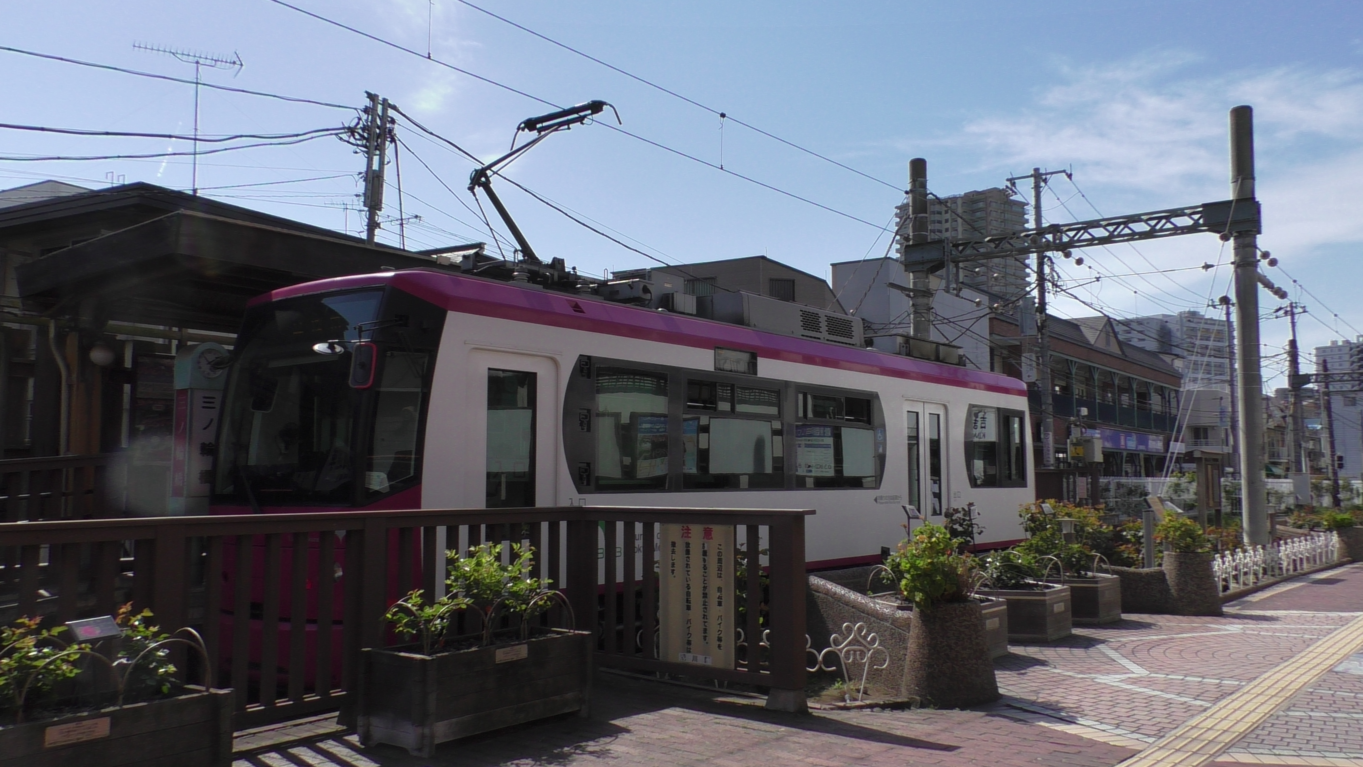 Tokyo Sakura Tram line(Toden Arakawa line) tram car 8803 stopping at Minowabashi tram station